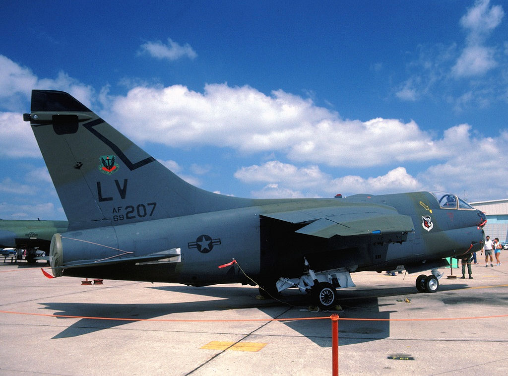 4451st Tactical Squadron A-7D Corsir II 69-6207 1971: Aircraft delivered to 354th Tactical Fighter Wing, Myrtle Beach AFB, SC (c/n D-128) Transferred to 23d Tactical Fighter Wing, England AFB, LA, 1977 Transferred to 57th Fighter Weapons Wing/66th FWS, Nellis AFB, NV, 1982 Transferred to 4450th Tactical Group/4451st TS, Nellis AFB, NV, 1984 Aircraft lost power while on cross-country flight, 20 Sep 1987. Pilot glided aircraft 30 mi in to Indianapolis, Indiana but got bad information from ATC and came in with too steep a descent. Pilot ejected and aircraft struck a Ramada Inn at the airport, killing 9 on ground. Pilot absolved of any blame.